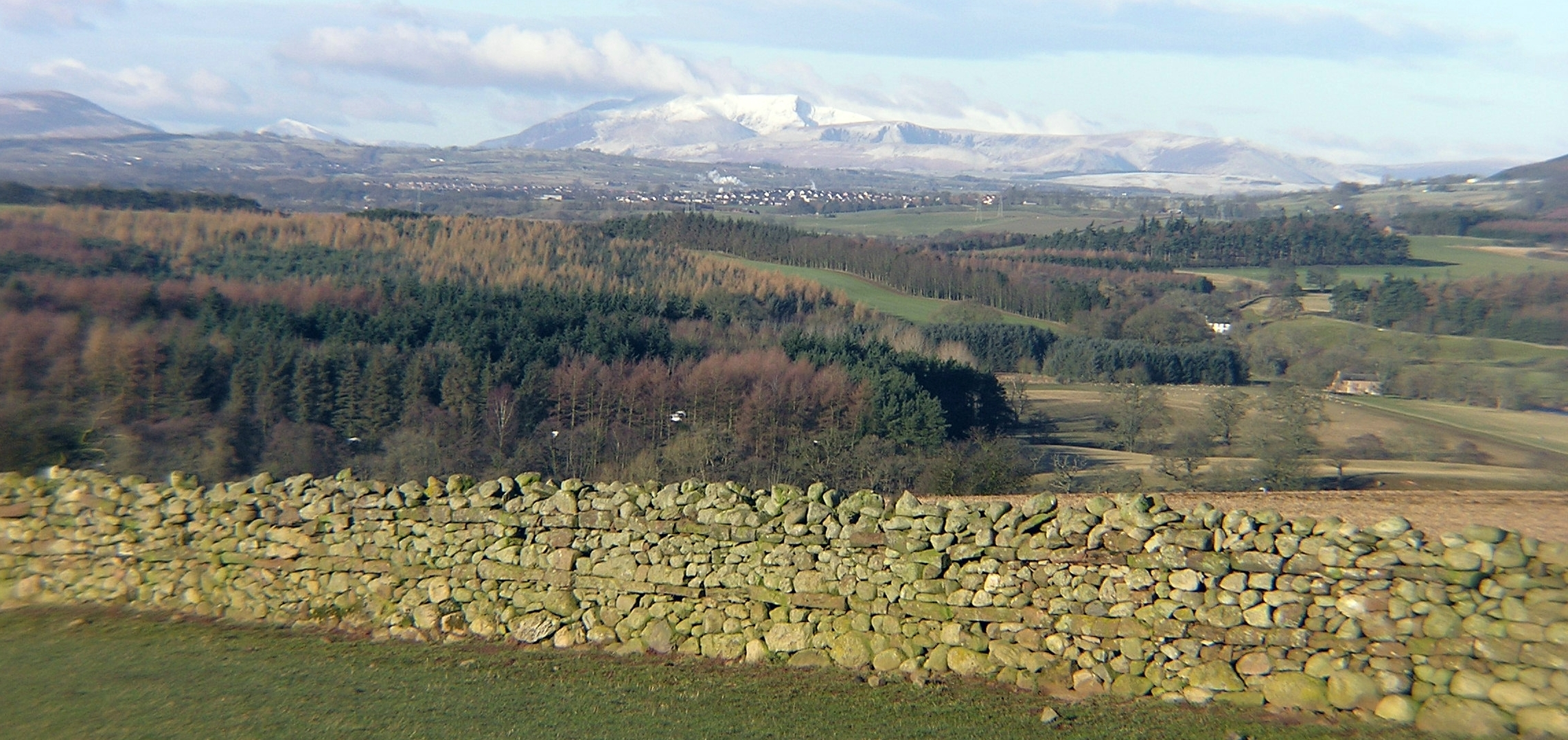 Photo of Caldbeck Fells, west of Penrith in Cumbria